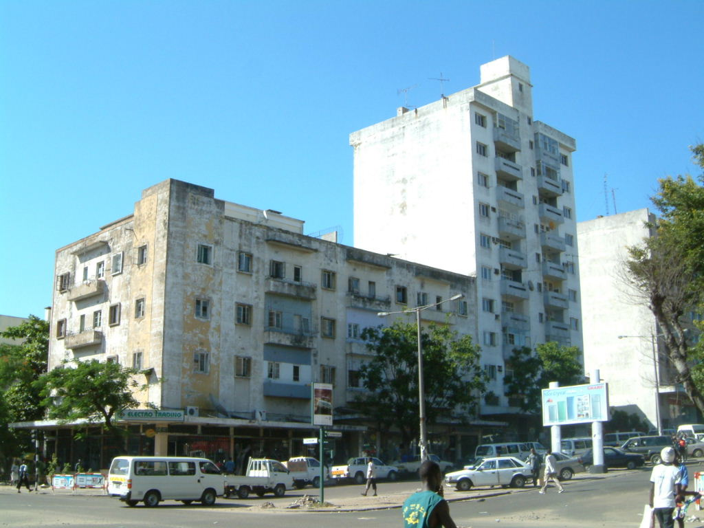 Typical street scene in Maputo, Mozambique.